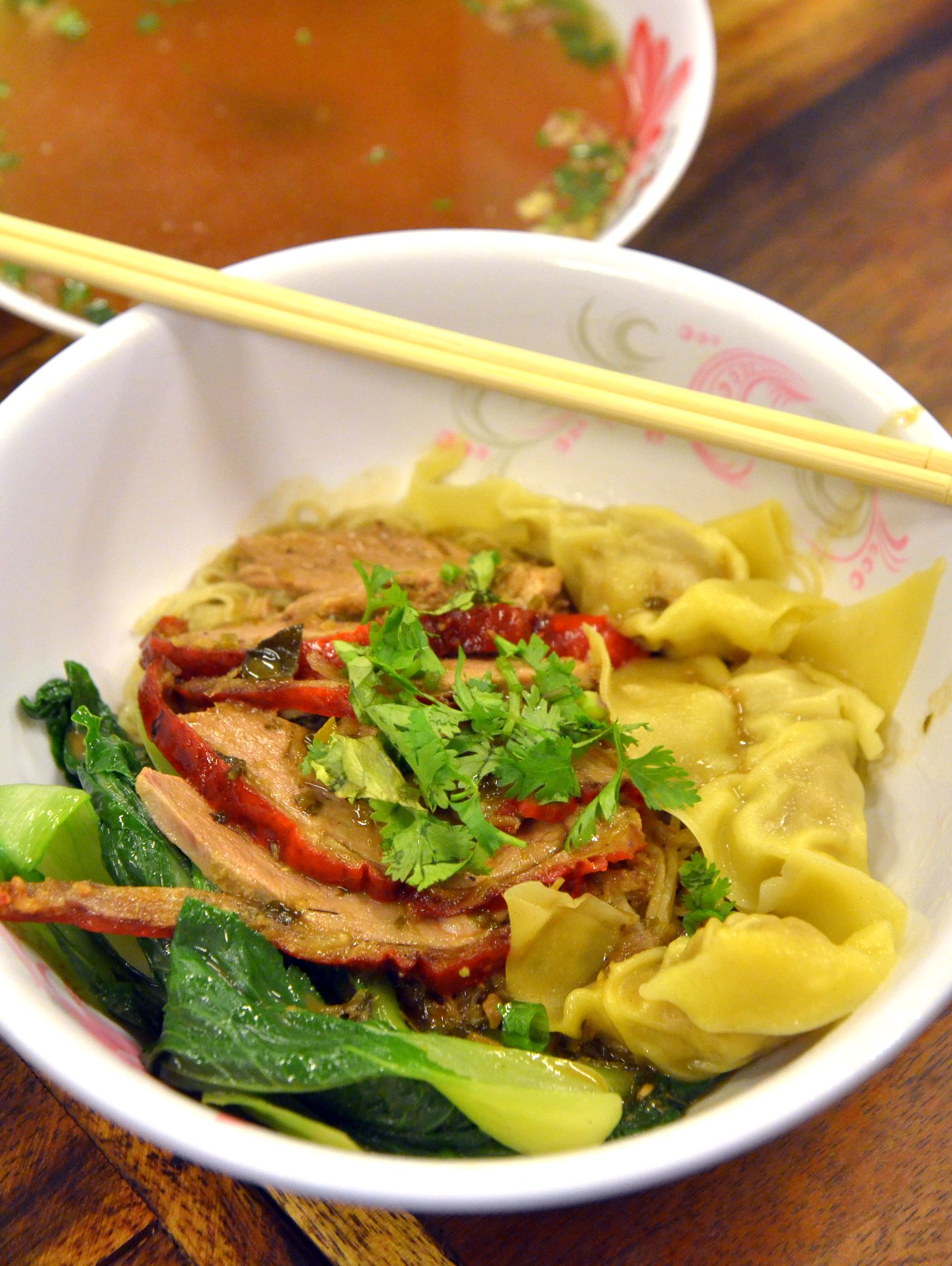 Bami haeng pet yang kiao: egg noodles with red roast duck and wonton noodles served "dry" with a broth on the side.